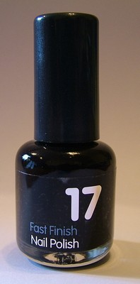 A bottle of nail polish.